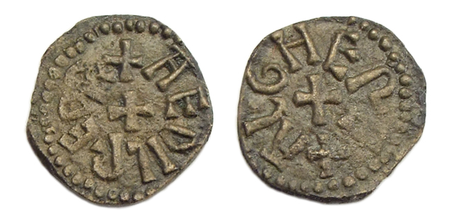 Anglo-Saxon England, Kings of Northumbria, AE Styca of Aethelred II. Moneyer: Alghere. Obverse: AEDILRED RX around small central cross, pelleted border around. Reverse: +ALGHERE around small central cross, pelleted border around.